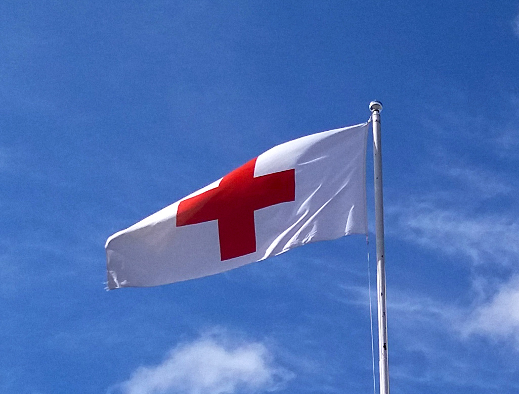 Red Cross flag. Situated above the building of Red Cross fleamarket in Jyväskylä.